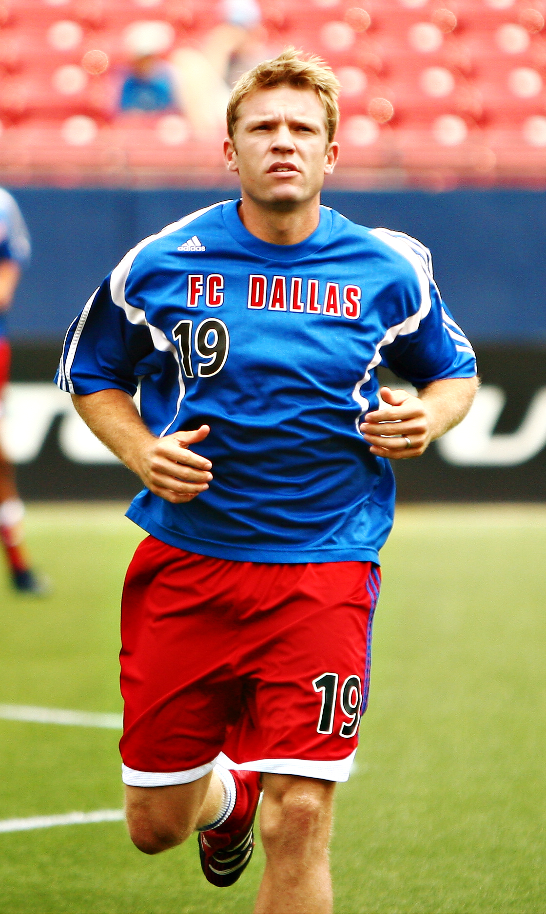 Bobby Rhine, American soccer player for FC Dallas (at time of photo)